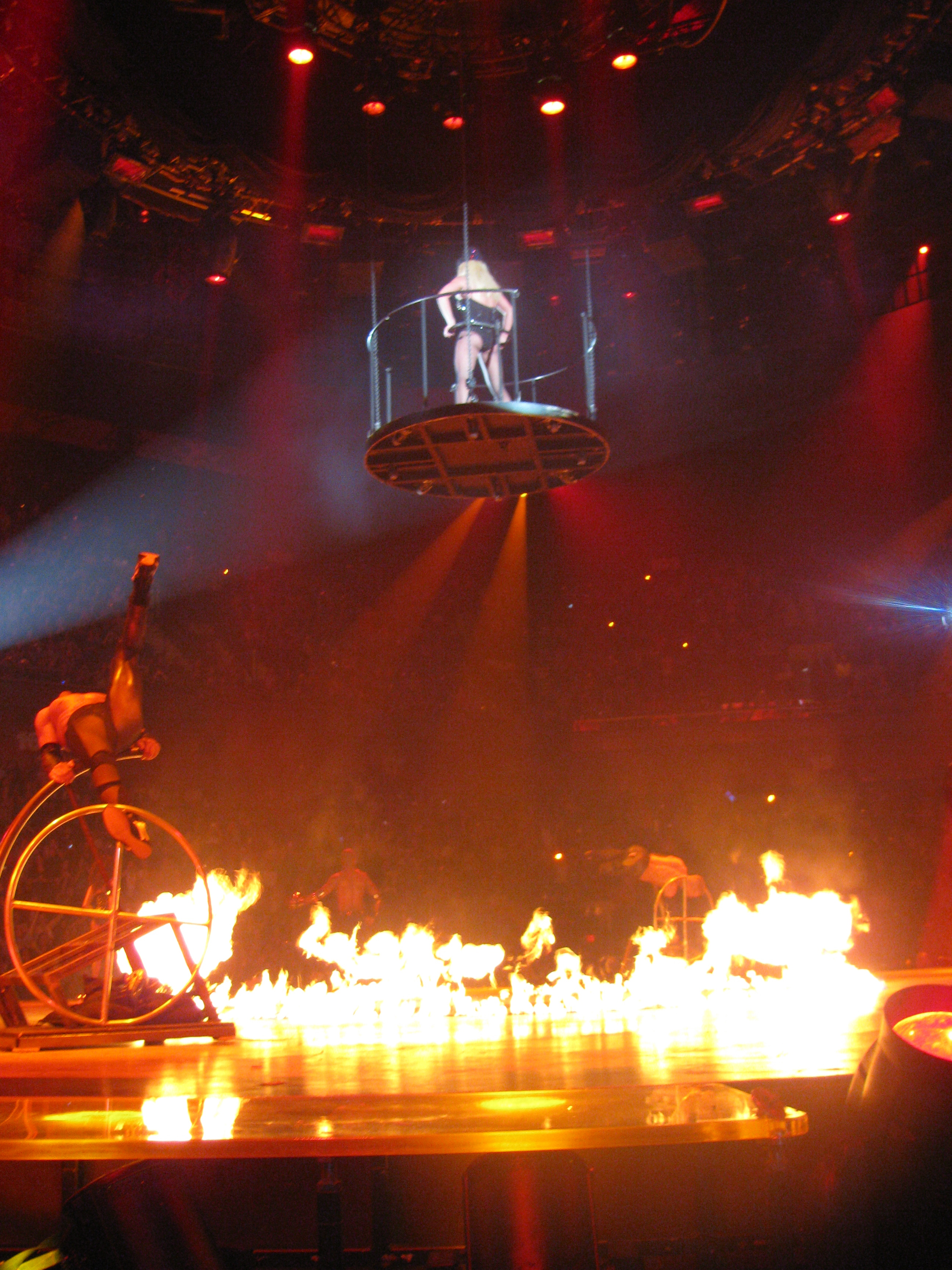 Spears doing "Ring of Fire"